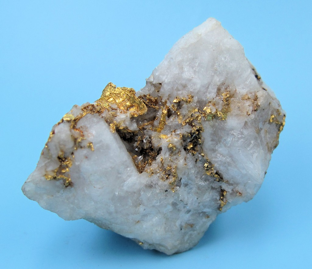 Gold, Quartz (Size: 47 mm x 33 mm; Weight: 38 g) Locality: Mancayan (Mankayan) mineral district, Benguet Province, Cordillera Administrative Region, Luzon, Philippines Original description: Gold in not well defined crystals, showing some plates together with filiform, dendritic and arborescent forms, on a matrix of quartz. Overall size: 47 mm x 33 mm. Weight: 38 g. This specimen was brought from Philippines by the Spanish engineer Antonio Hernández, who had worked at the Macayan copper mines in the 19th century. I keep handwritten documents from him, dated year 1853, related with the mentioned copper mining works.